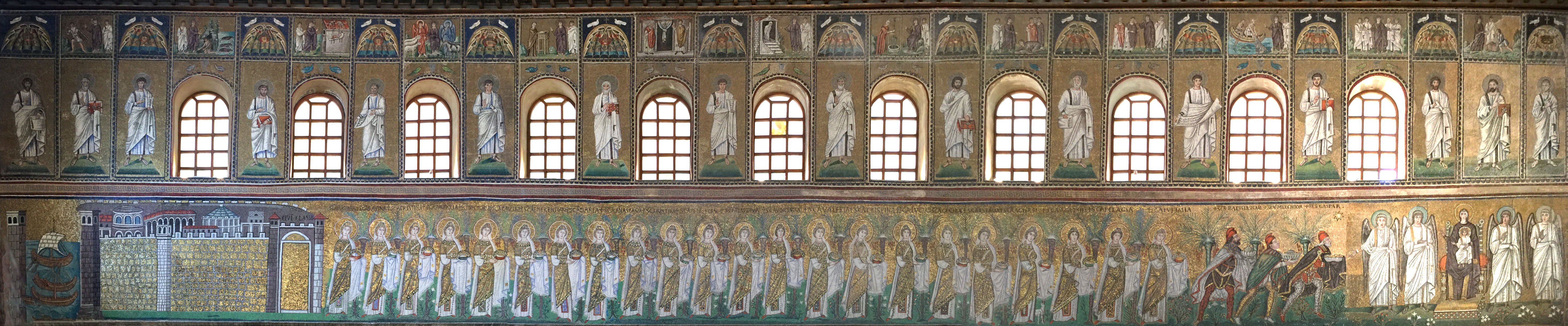 Panorama of the North nave wall mosaics at Sant Apollinare Nuovo, Ravenna, Italy